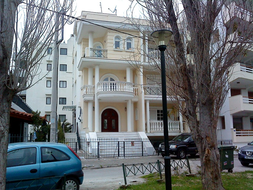 A house of great architecture at Halandri, Polydroso area.